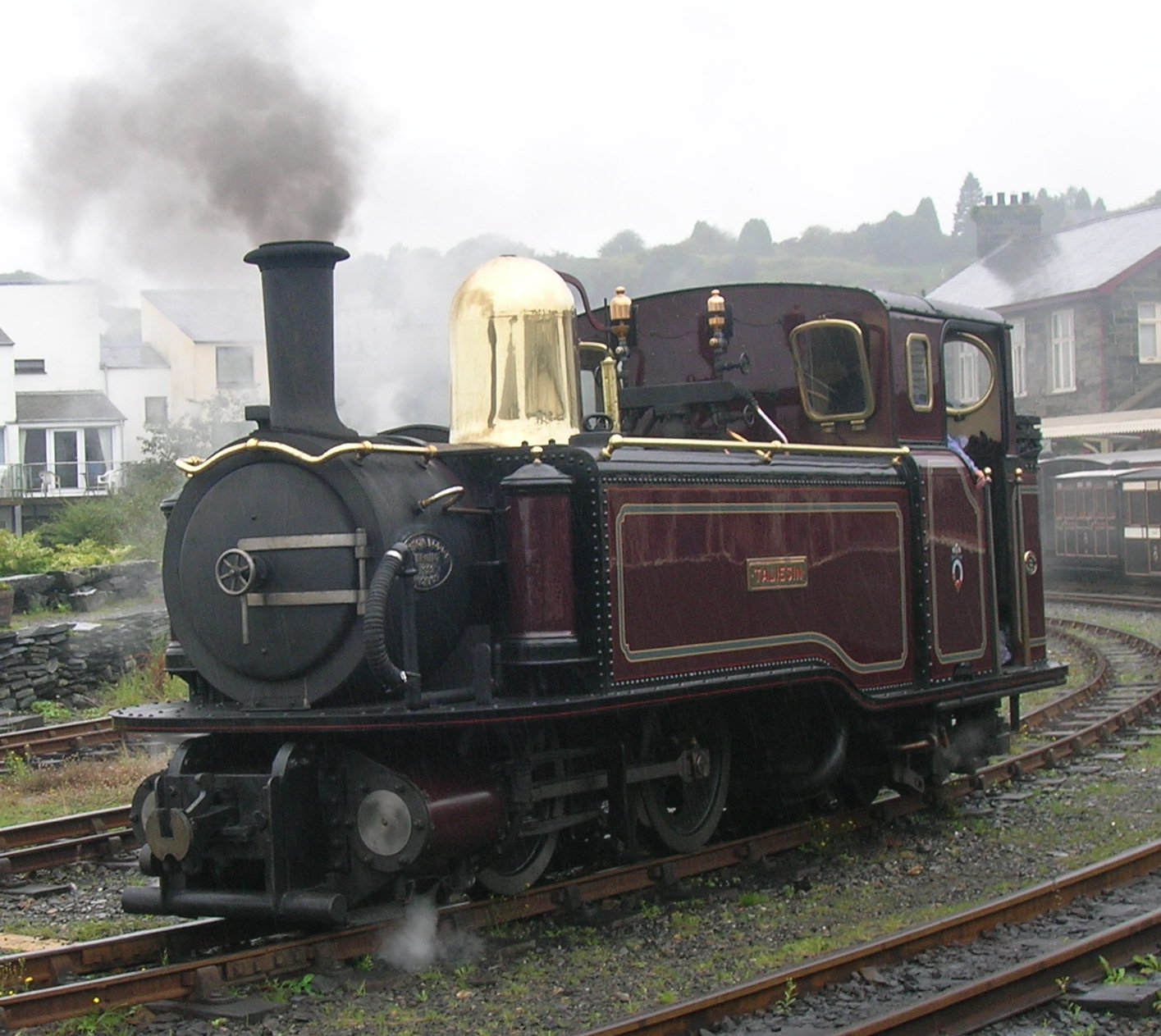 Taliesin, locomotive of the Ffestiniog Railway